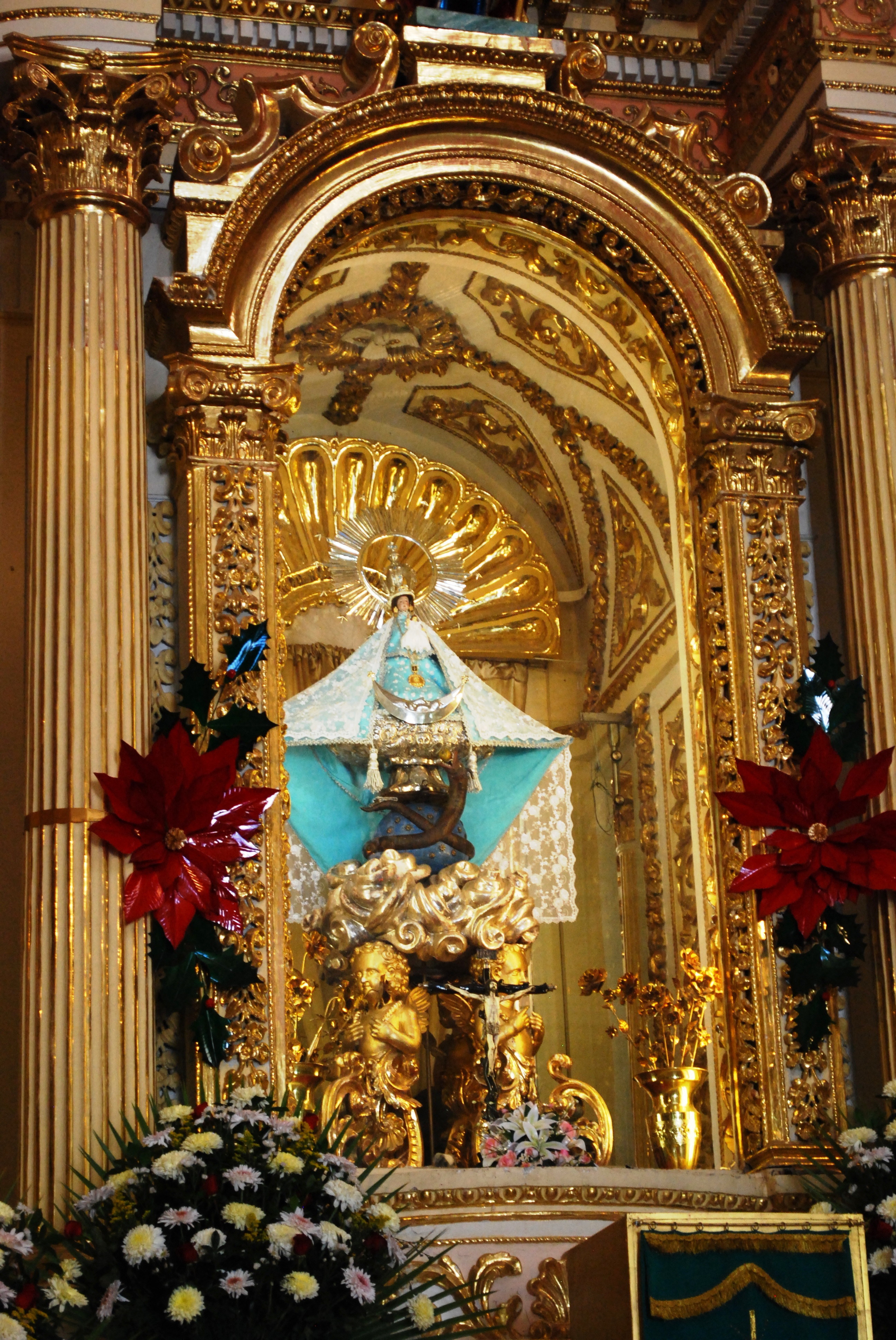 Image of the Virgin of the Remedies on the main altar of the Nuestra Señora de los Remedios church in Cholula, Puebla, Mexico